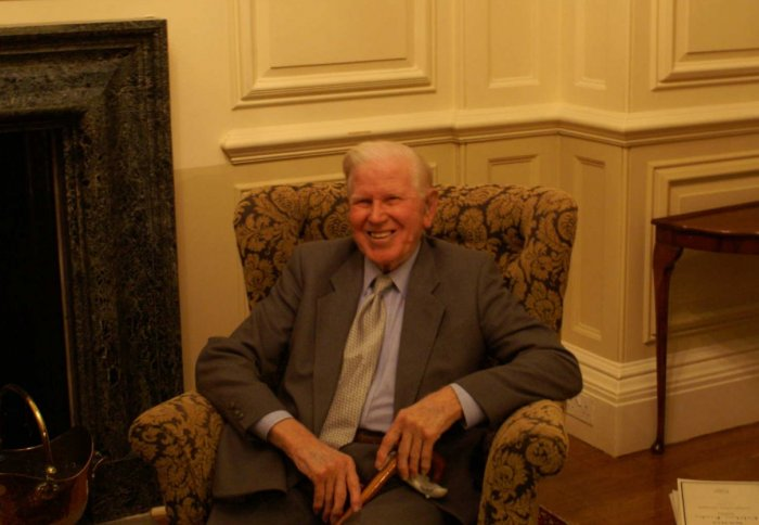 Roger Sargent attending the dinner at the 2014 Roger Sargent lecture at Imperial College.